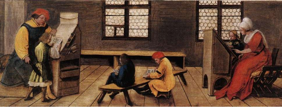 schoolmaster